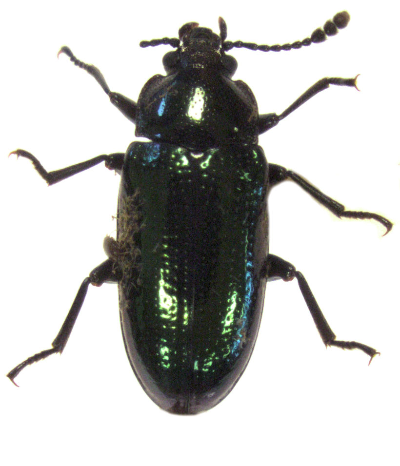 adult Arthopus brouni, length about 5 mm